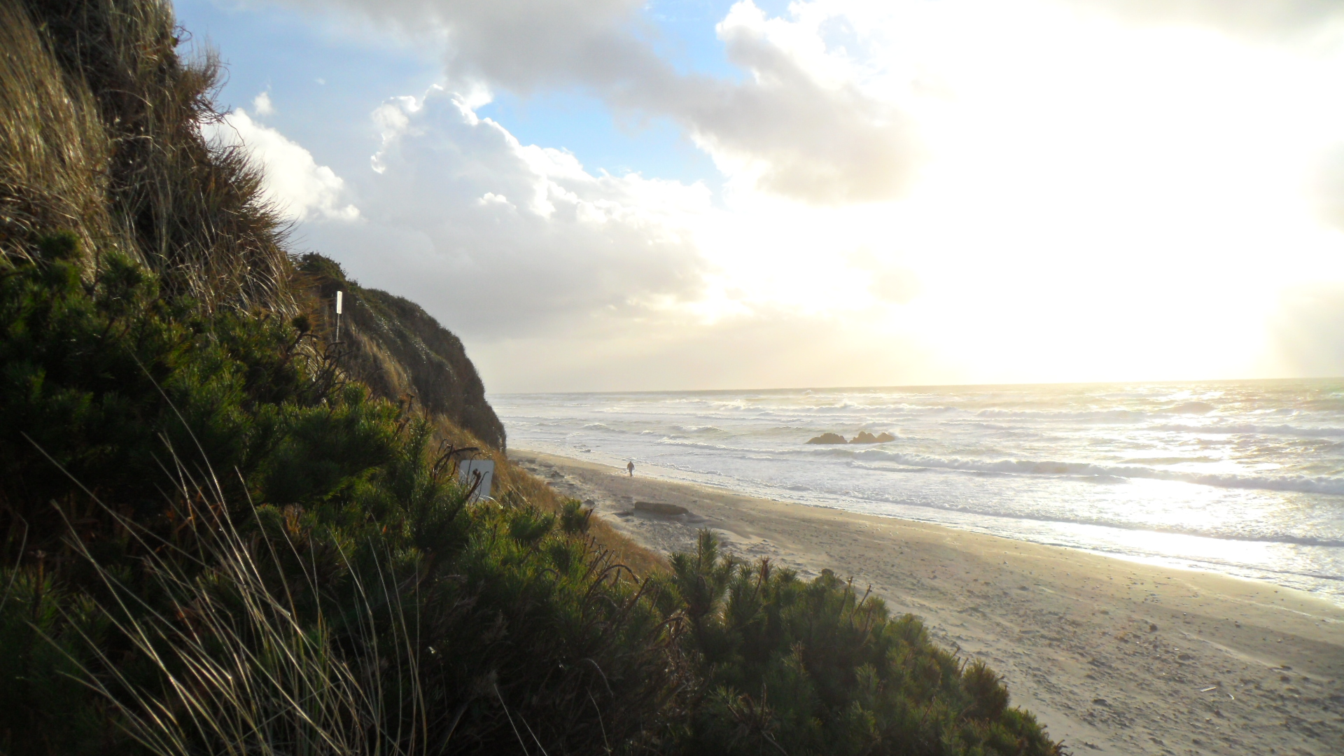 View of Lincoln City Beach at sunset from Steps off of NW 25th Street